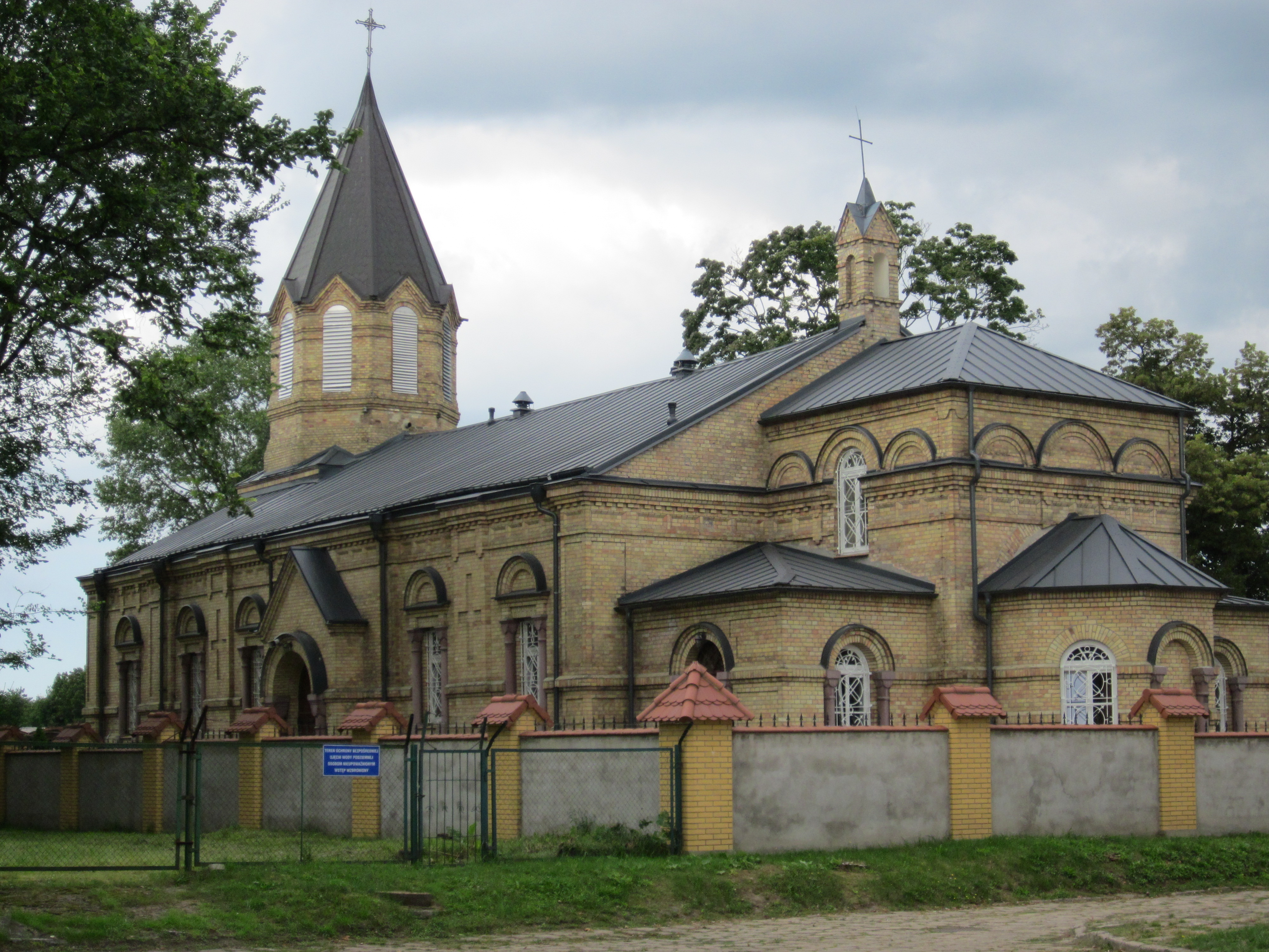 Saint Stanislaus church in Białystok, 2b Wiadukt street